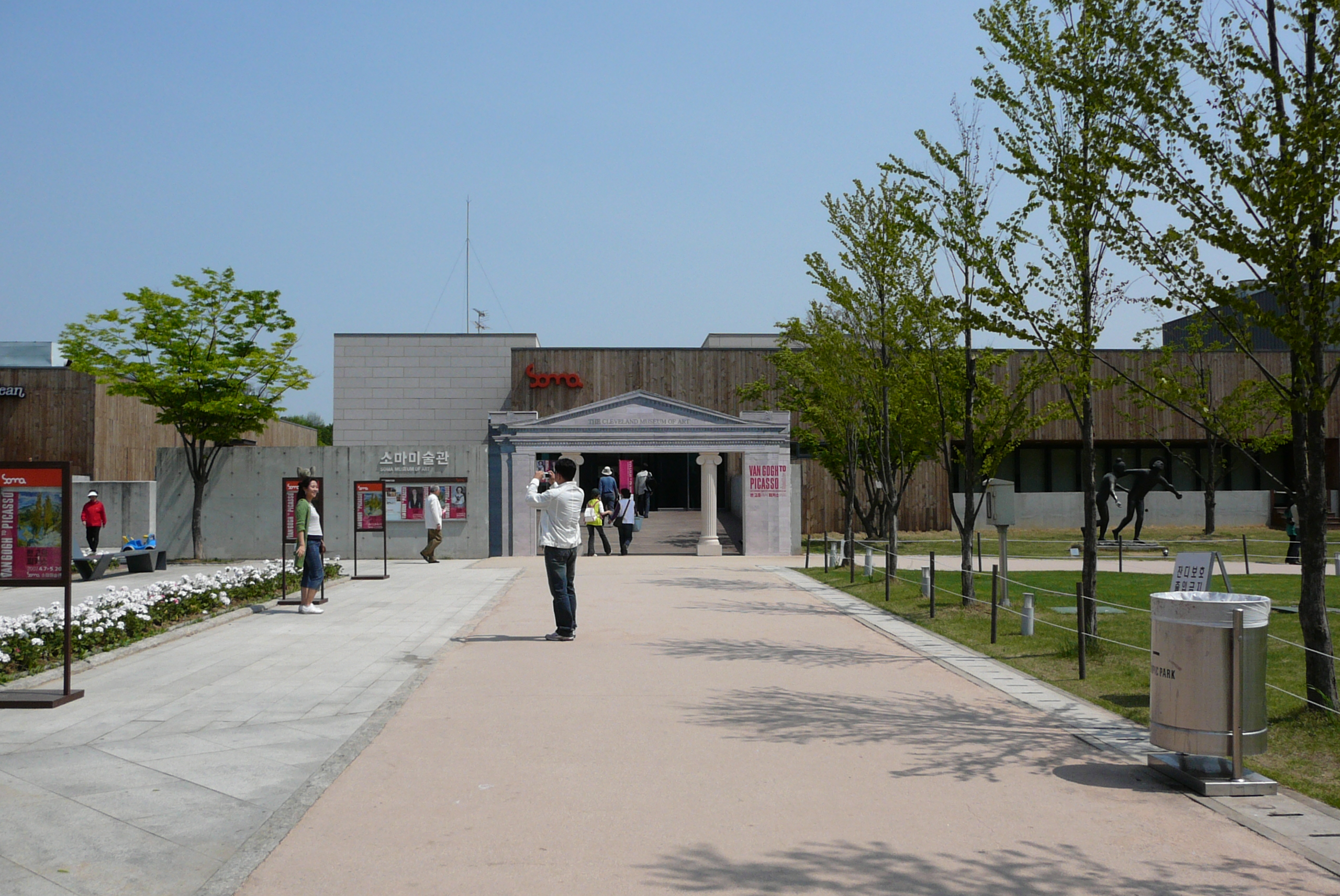 Soma museum in the Seoul Olympic Park.